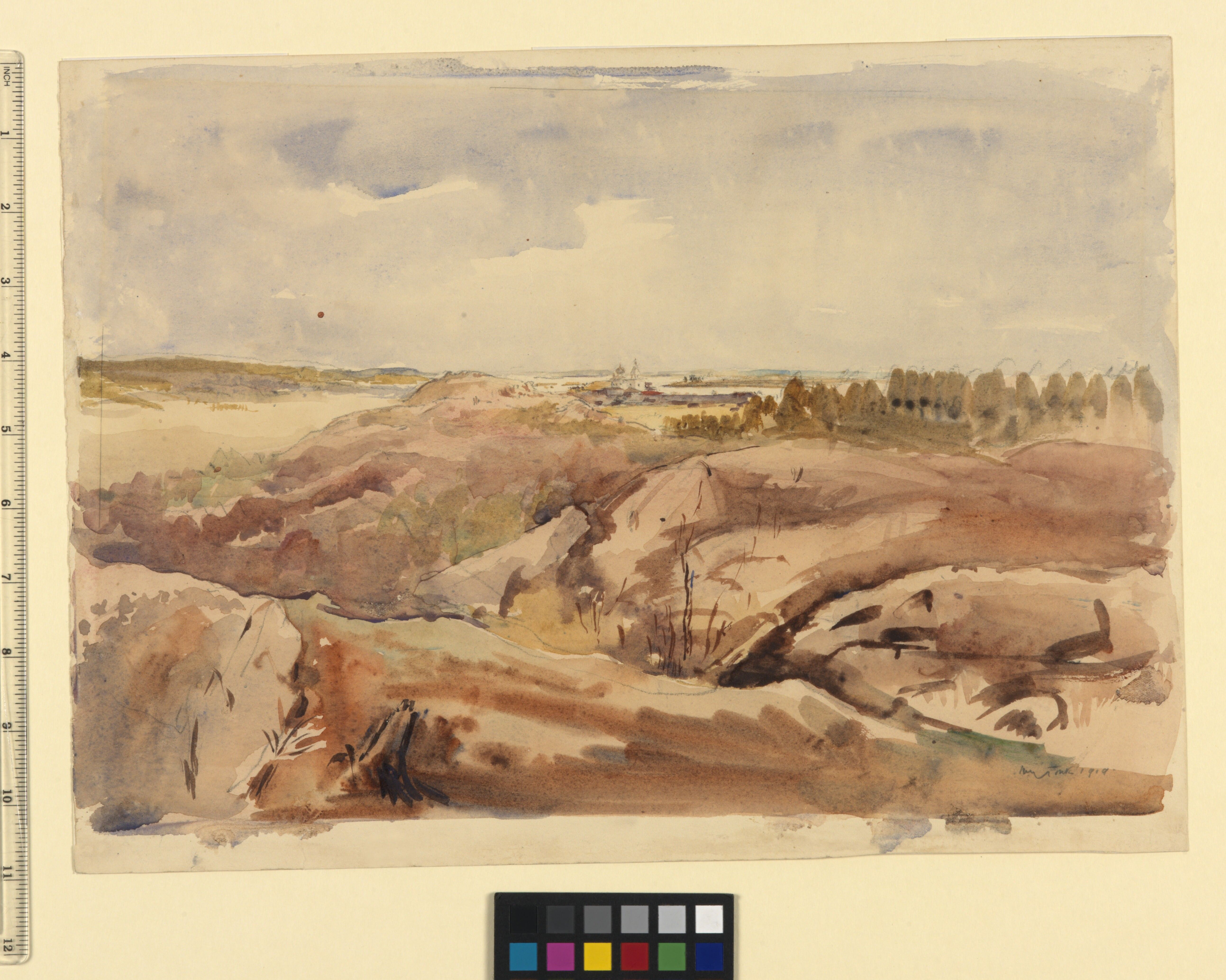 Kem Town- a distant view from the hill above General Headquarters image: a view across a Russian landscape, with the distinctive onion-dome and tented roof of the church at Kem in the distance. There is broken ground in the foreground, a wood to the right and the White Sea is visible on the horizon.